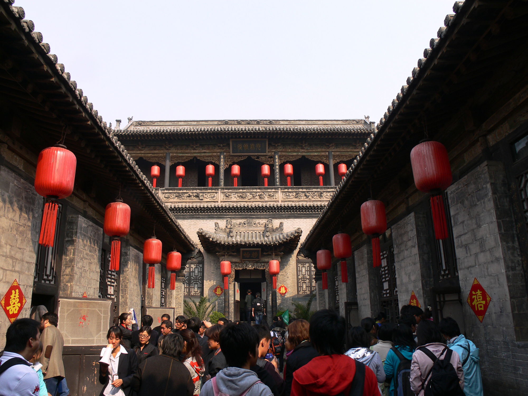 Jingyi House of Qiao Family Compound in Shanxi